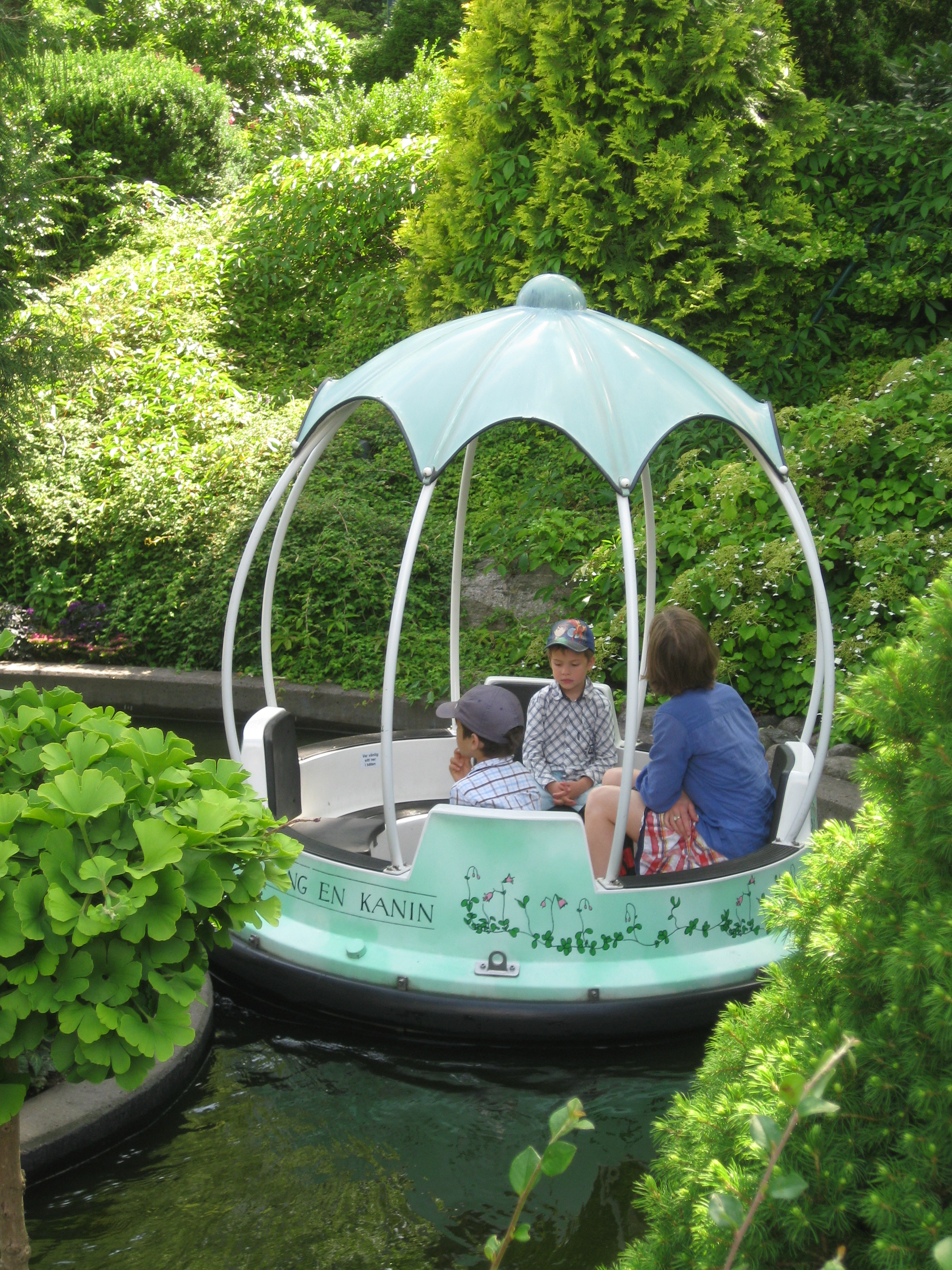 "Kaninresan", Liseberg, Gothenburg, Sweden.